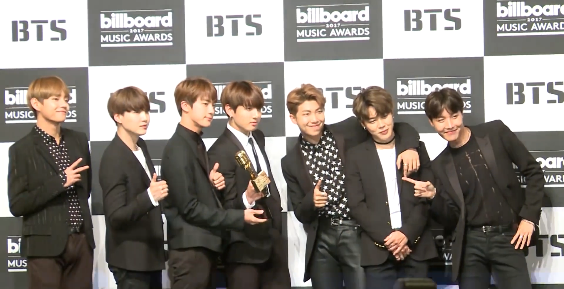 BTS at a press conference for the Billboard Music Awards on May 29, 2017